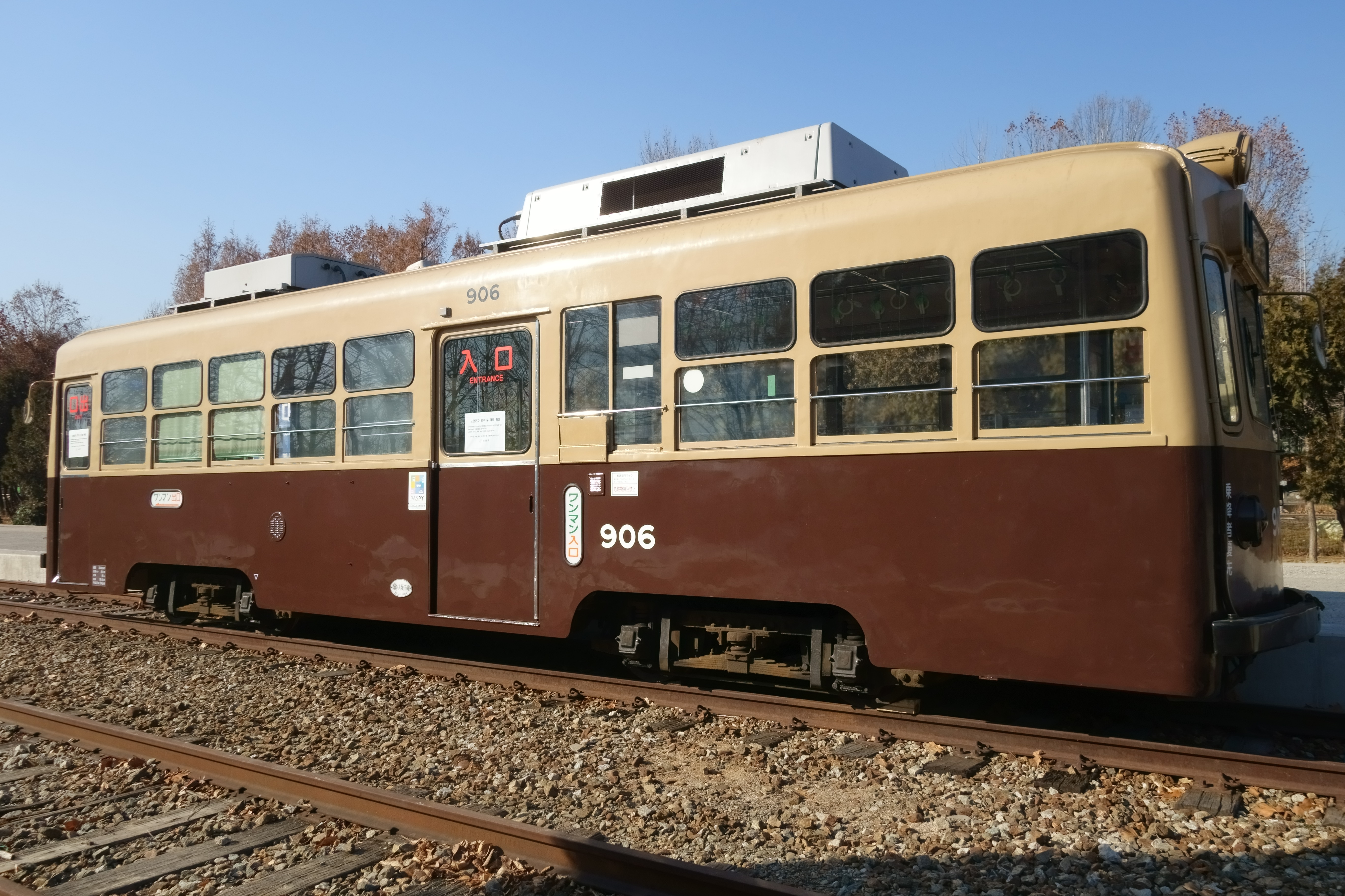 Hiroshima electric railway 900 series No.906 streetcar side(at Korail Hwarangdae Stn.)